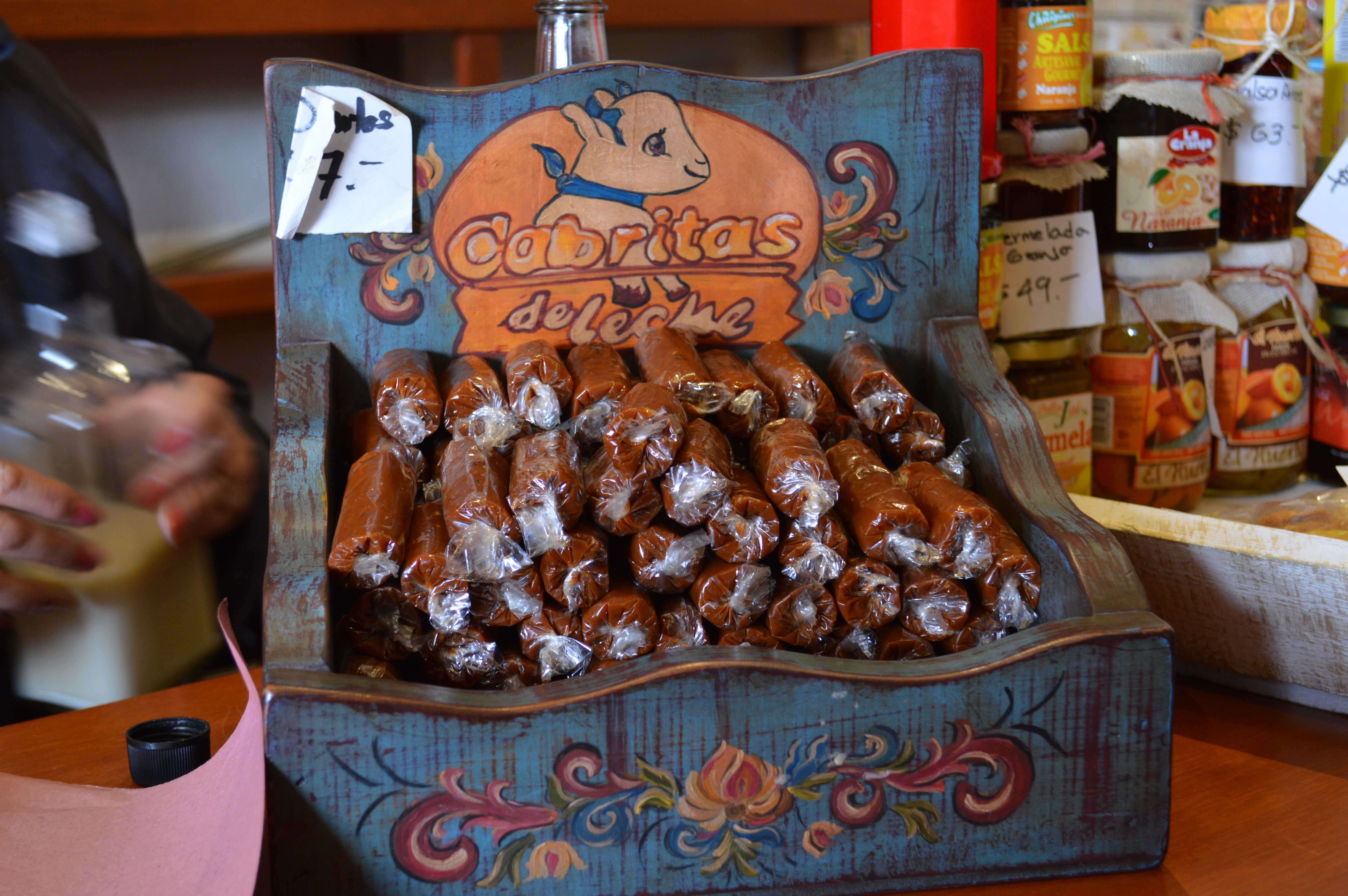 Cajeta (Dulce de leche) candy at a spirits shop in the Portales in Toluca, Mexico